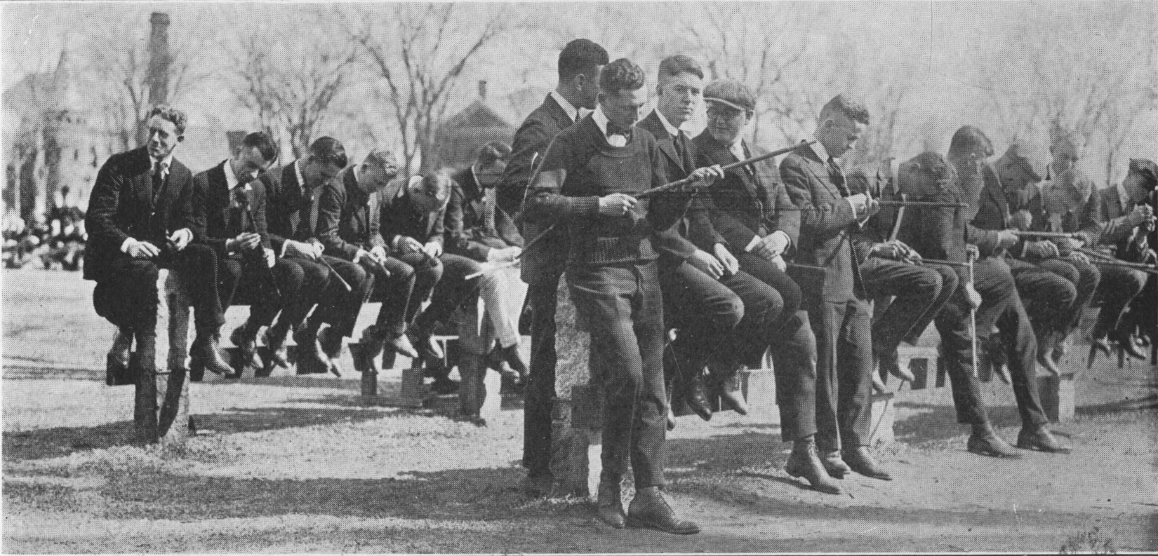 Scanned photo of students carving canes while sitting on the Senior Fence on The Green at Dartmouth College in Hanover, New Hampshire. The caption says "Carving canes is almost the last undergraduate rite. Each senior leaves his mark on his friends' sticks. Here is a busy group of carvers at the senior fence."